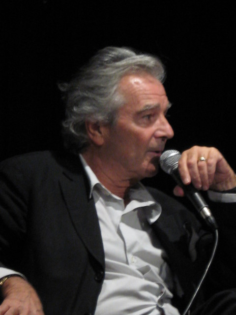 Pierre Arditi, Paris, October 7th, 2008